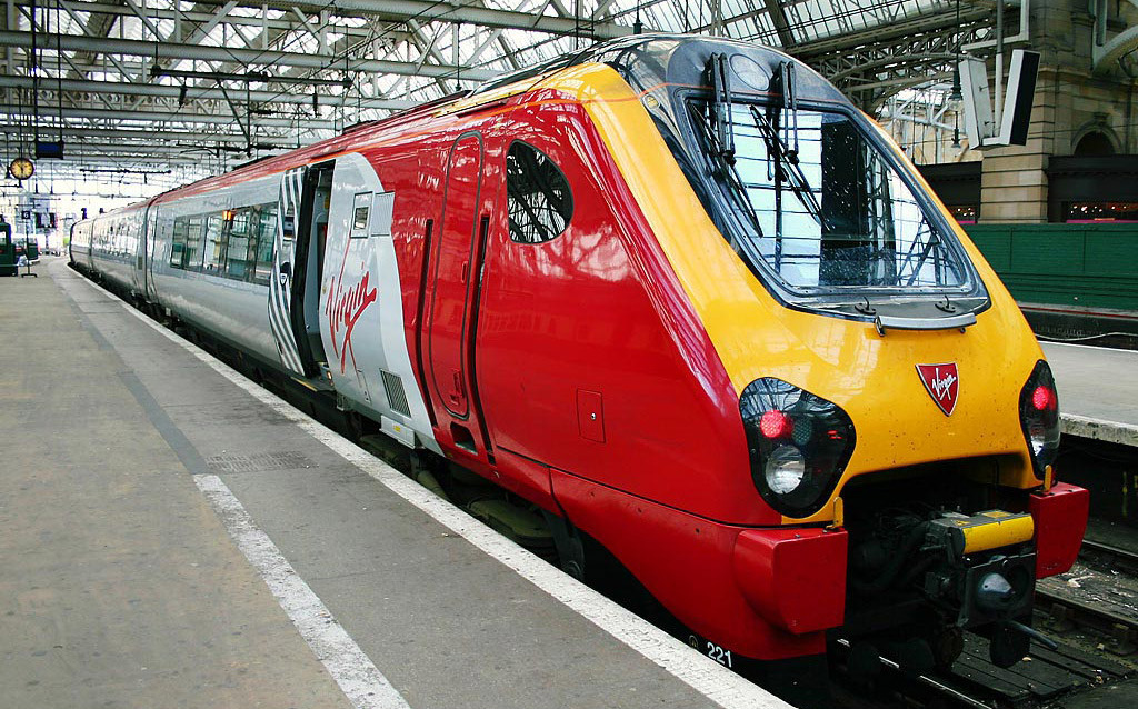 This image was taken by Martin J.Galloway. Donated from the British Photo Encyclopedia Dotonegroup : talk. The controversial Virgin Trains Super Voyager tilts at 6% for increased speed in bends. Units are thinner to prevent contact with other trains in corners. Some say cabins are cramped, no luggage room as a result. 221113 "Sir Walter Raleigh", Platform 5 Glasgow Central Station.